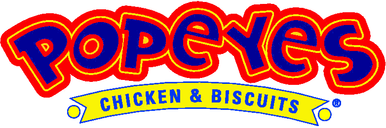 popeyes logo